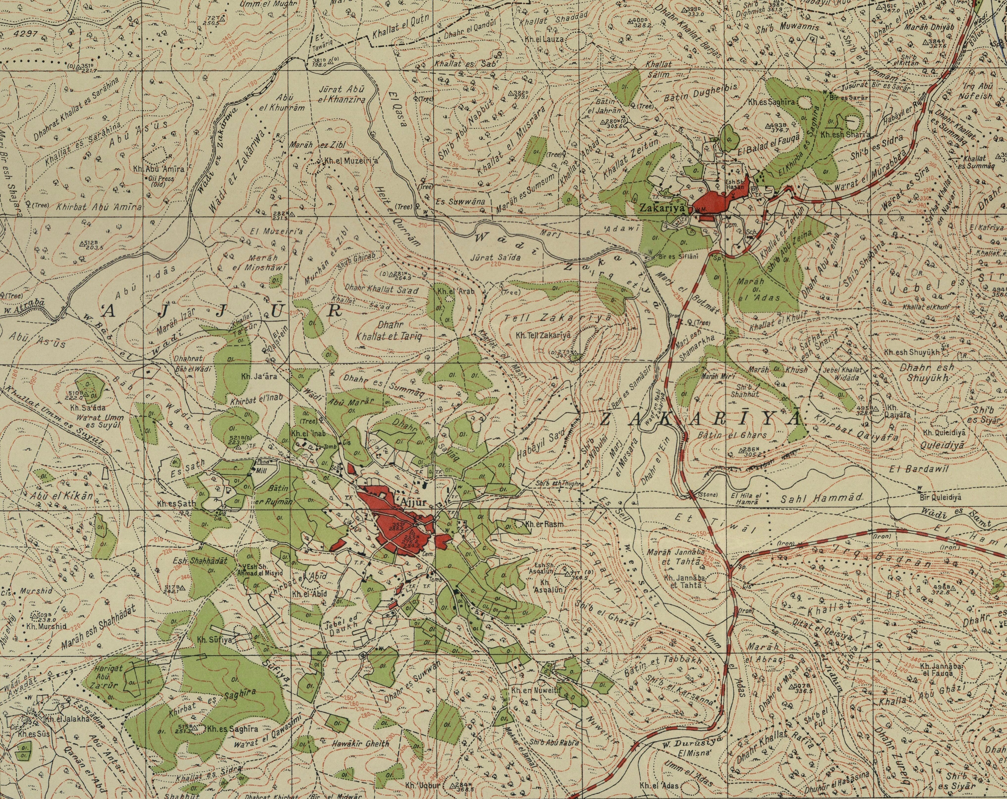 Ajjur 1947 1:20,000